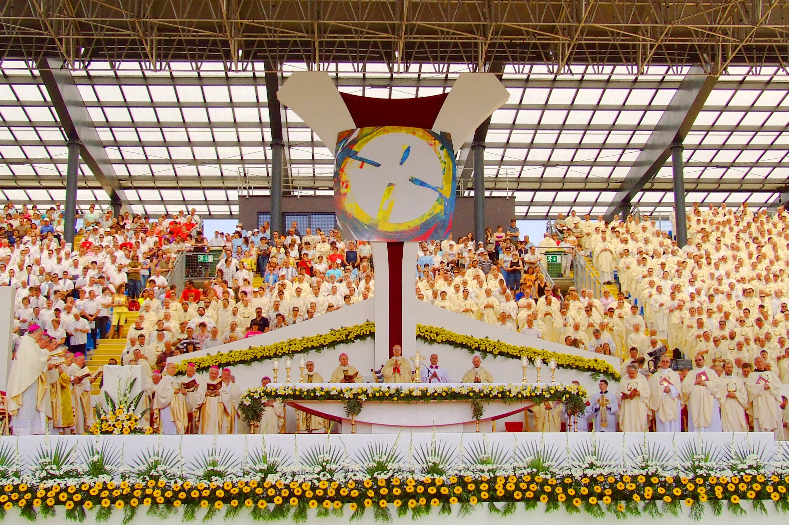 Vid Gajšek's documentary fineart digital photograph shows »Slovenian Eucharistic Congress 2010 on Sunday, 13th June 2010«, a special day of history of Slovene Catholic Church with proclamation of Blessed Aloysius Grozde (became first Slovene martyr for holy faith), happened within Eucharistic celebration in the holy faith in Jesus Christ, present in the Corpus holy body and blood.